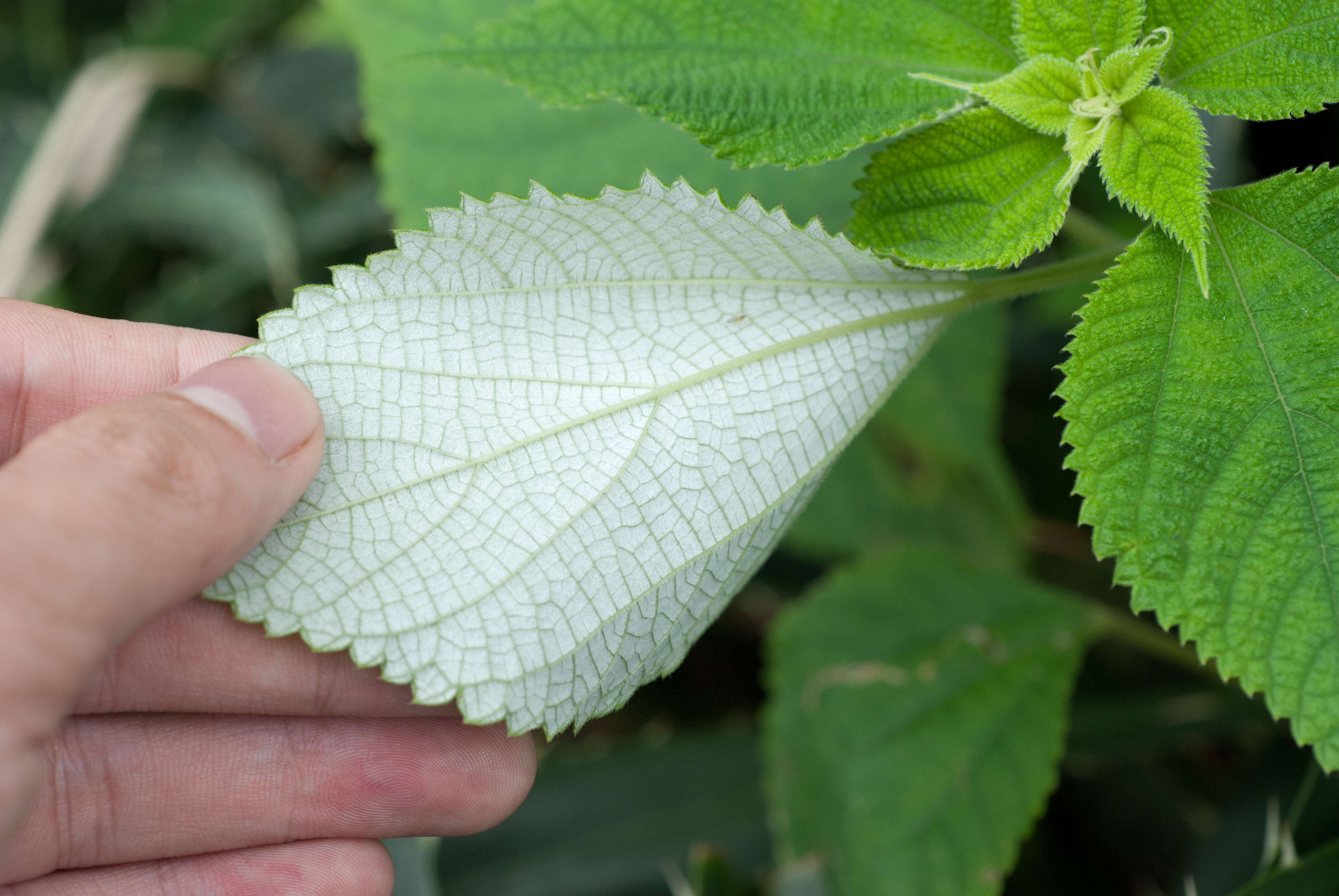 Boehmeria nivea.